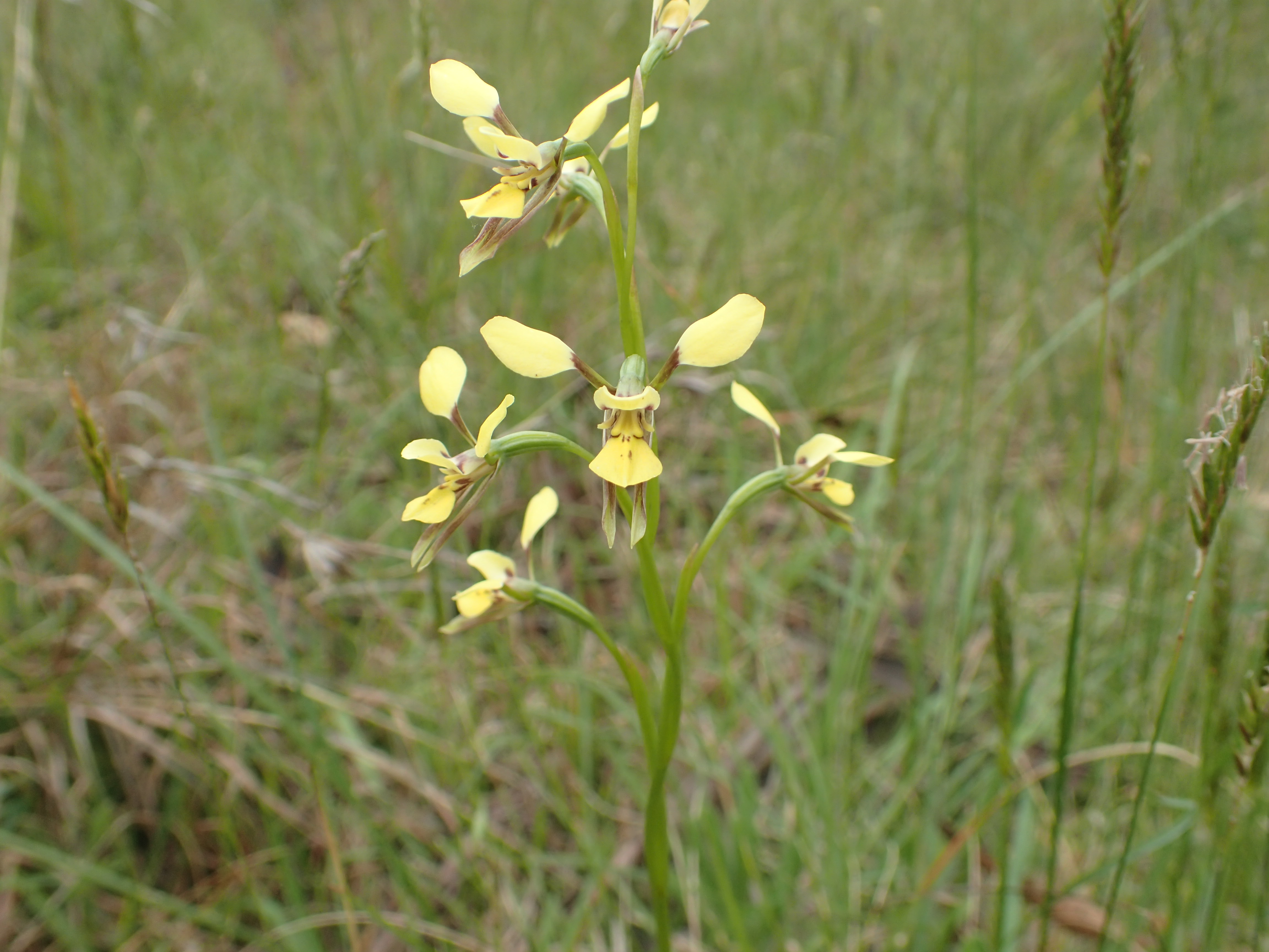 Diuris abbreviata growing on the side of Wards Mistake Road, about 28 km from Guyra